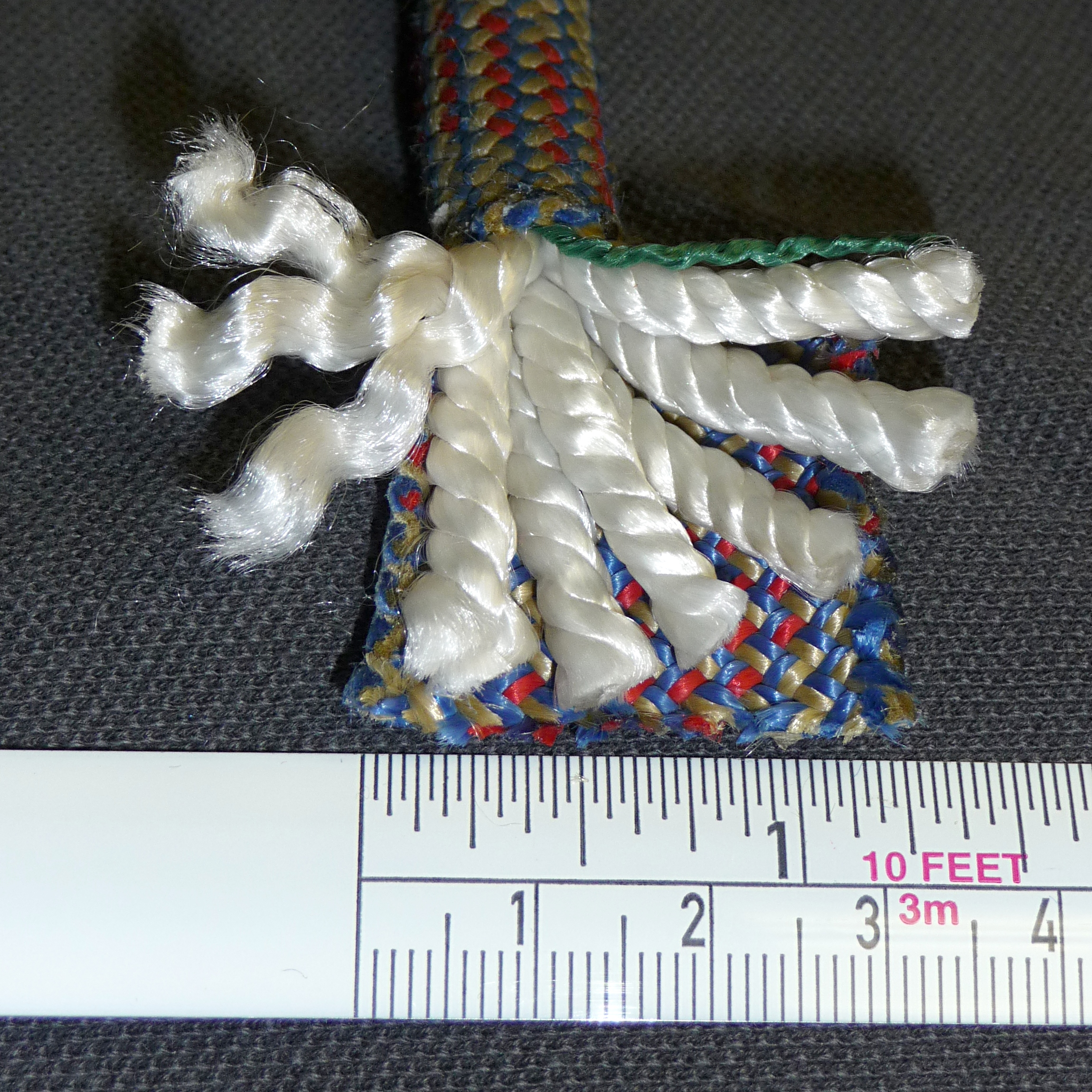 Internal structure of 10.7mm dynamic kernmantle climbing rope. This nylon rope is composed of a 40 strand "two-over-two" braided sheath and a core made from seven 3-ply yarns with a single green tracer strand running parallel to the core yarns. Note that four of the seven core yarns are S-twist (left-handed) and three are Z-twist (right-handed). In this image the three plies of the left-most core yarn are spread apart. Sample from trimmed end of a used climbing rope.